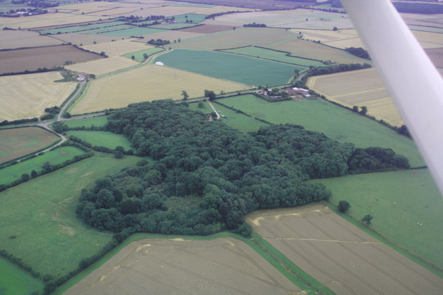 Castle Wood and Castle Hill, Castle Carlton